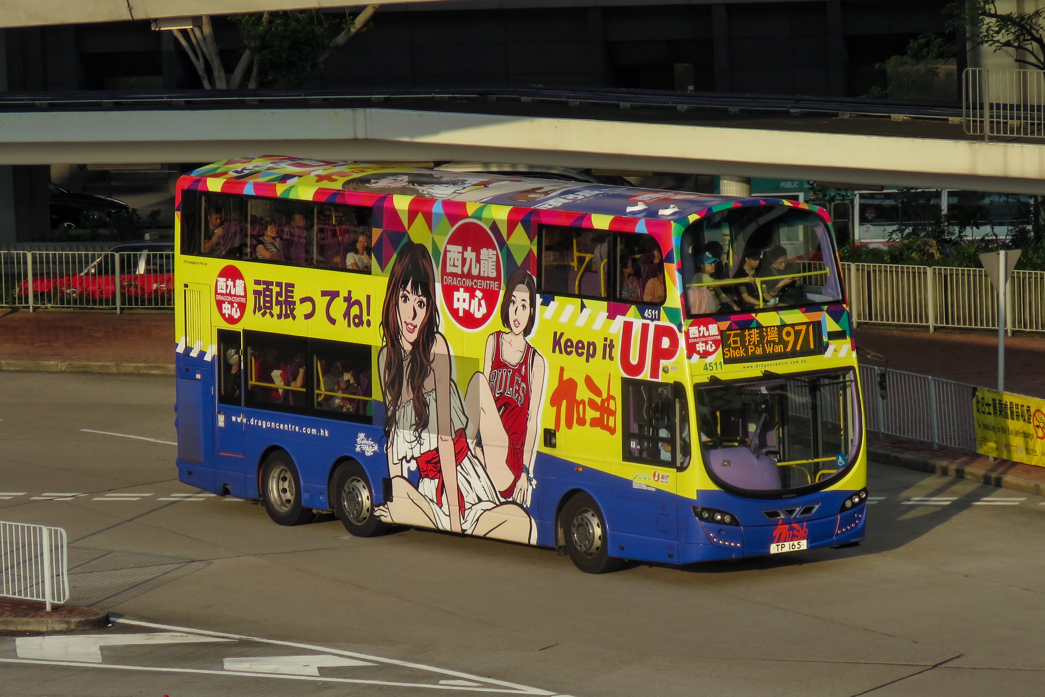 Dragon Centre made some new advertisements: this one with cheerleaders.